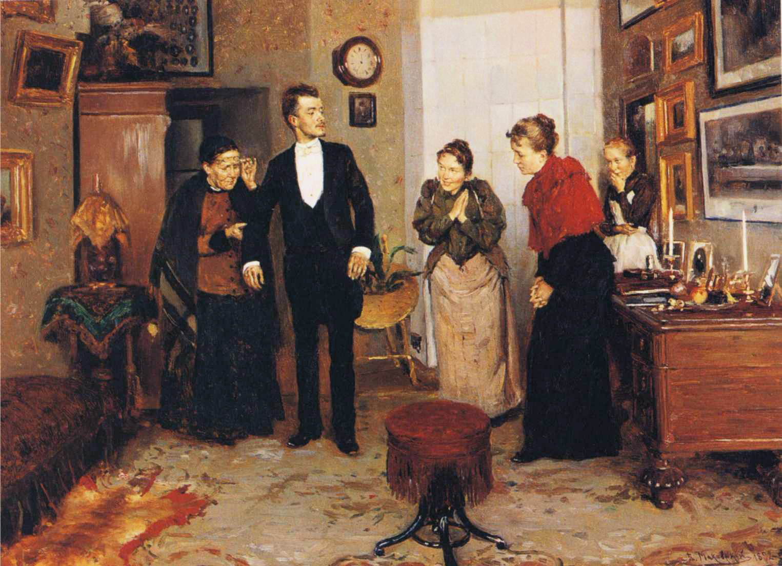 oil painting on canvas. In olden days in Russia it was a rite of passage for young men of better families to get their first suit at age 16. This painting depicts such an occasion.